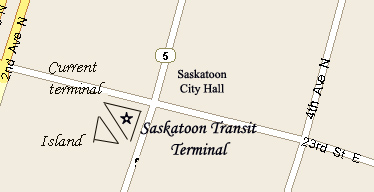 Saskatoon Transit proposed location of new building for a down town terminal using parking lot astride the closed off section of 23rd street between 2nd and 3rd Avenues